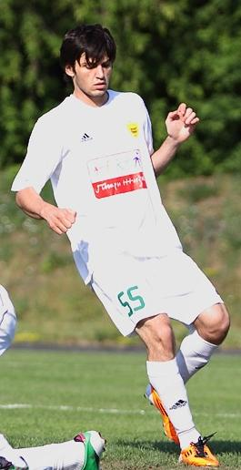 Badavi Guseynov with FC Anzhi Makhachkala.